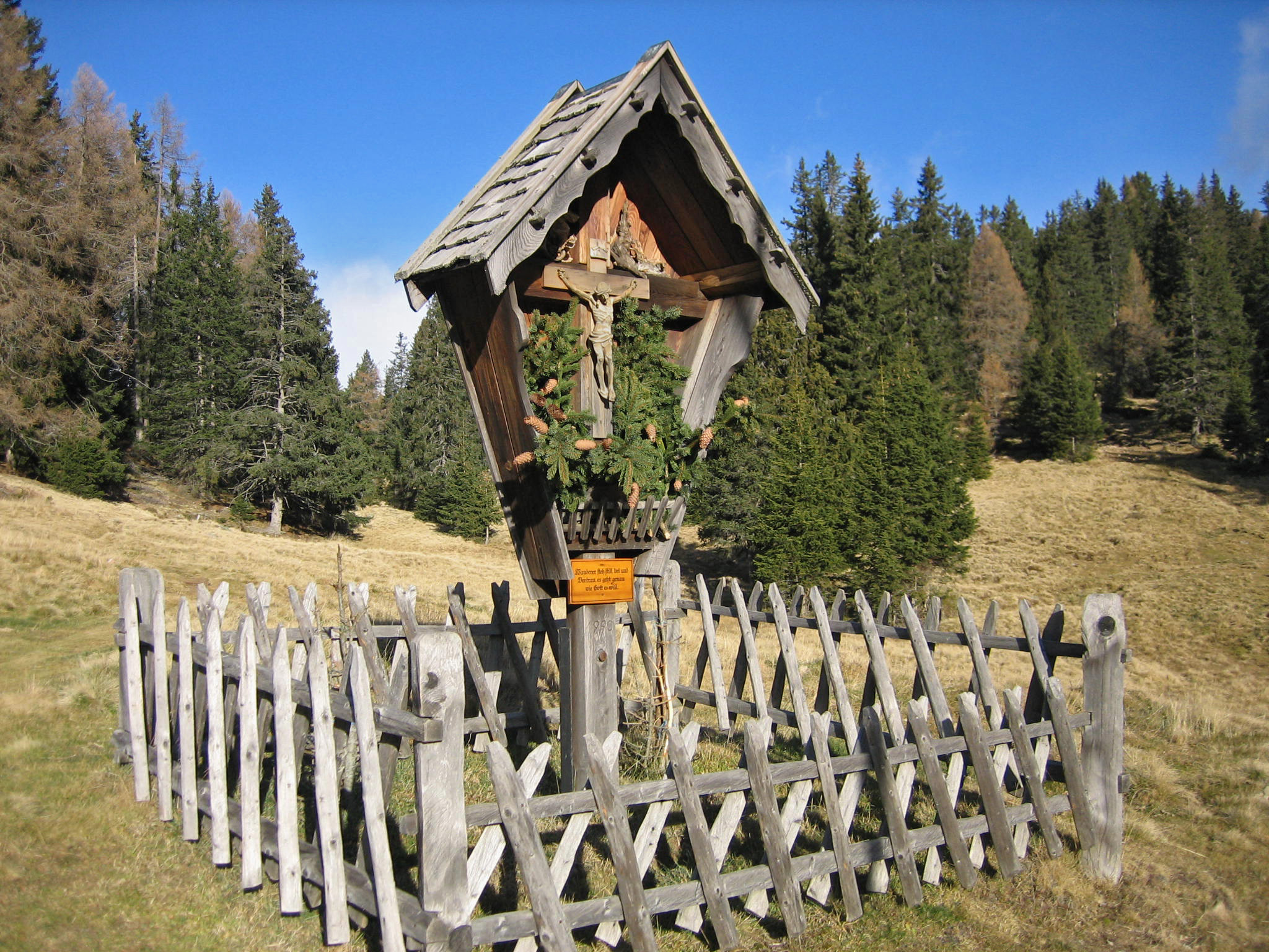 Wayside cross on the Tschögglberg mountain (Vöran) - South Tyrol